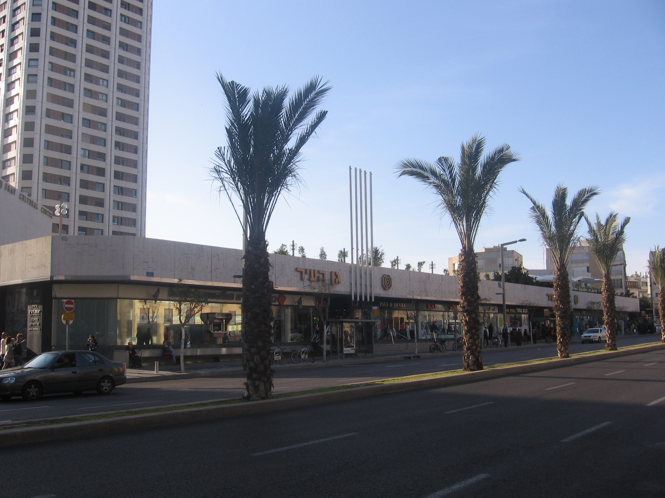 Gan Ha'ir complex in Tel Aviv.